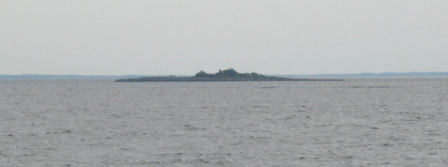 Looking west at Swinburne Island from a ferry passing less than a mile off Nortons Point Light on a sunny afternoon. Staten Island (right) and Monmouth County in background.